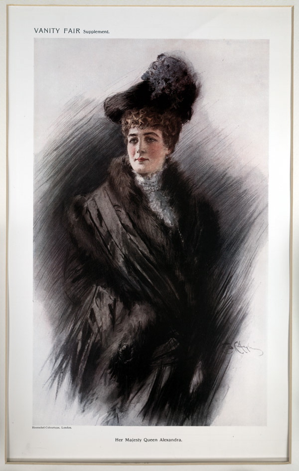 Our Celebrities No.1282: Caricature of HM Queen Alexandra. Caption reads: "Her Majesty Queen Alexandra"